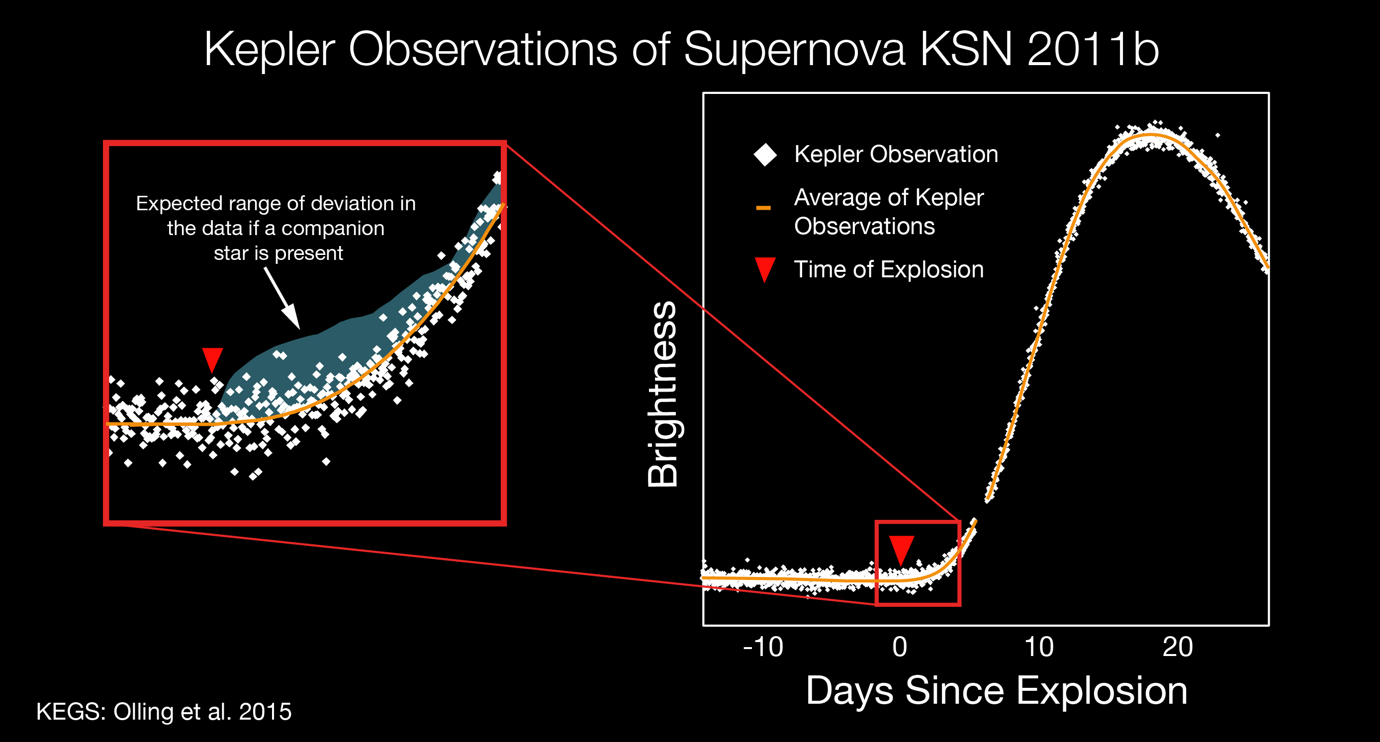 The graphic depicts a light curve of the newly discovered Type Ia supernova, KSN 2011b, from NASA's Kepler spacecraft. The light curve shows a star's brightness (vertical axis) as a function of time (horizontal axis) before, during and after the star exploded. The white diagram on the right represents 40 days of continuous observations by Kepler. In the red zoom box, the agua-colored region is the expected 'bump' in the data if a companion star is present during a supernova. The measurements remained constant (yellow line) concluding the cause to be the merger of two closely orbiting stars, most likely two white dwarfs. The finding provides the first direct measurements capable of informing scientists of the cause of the blast.